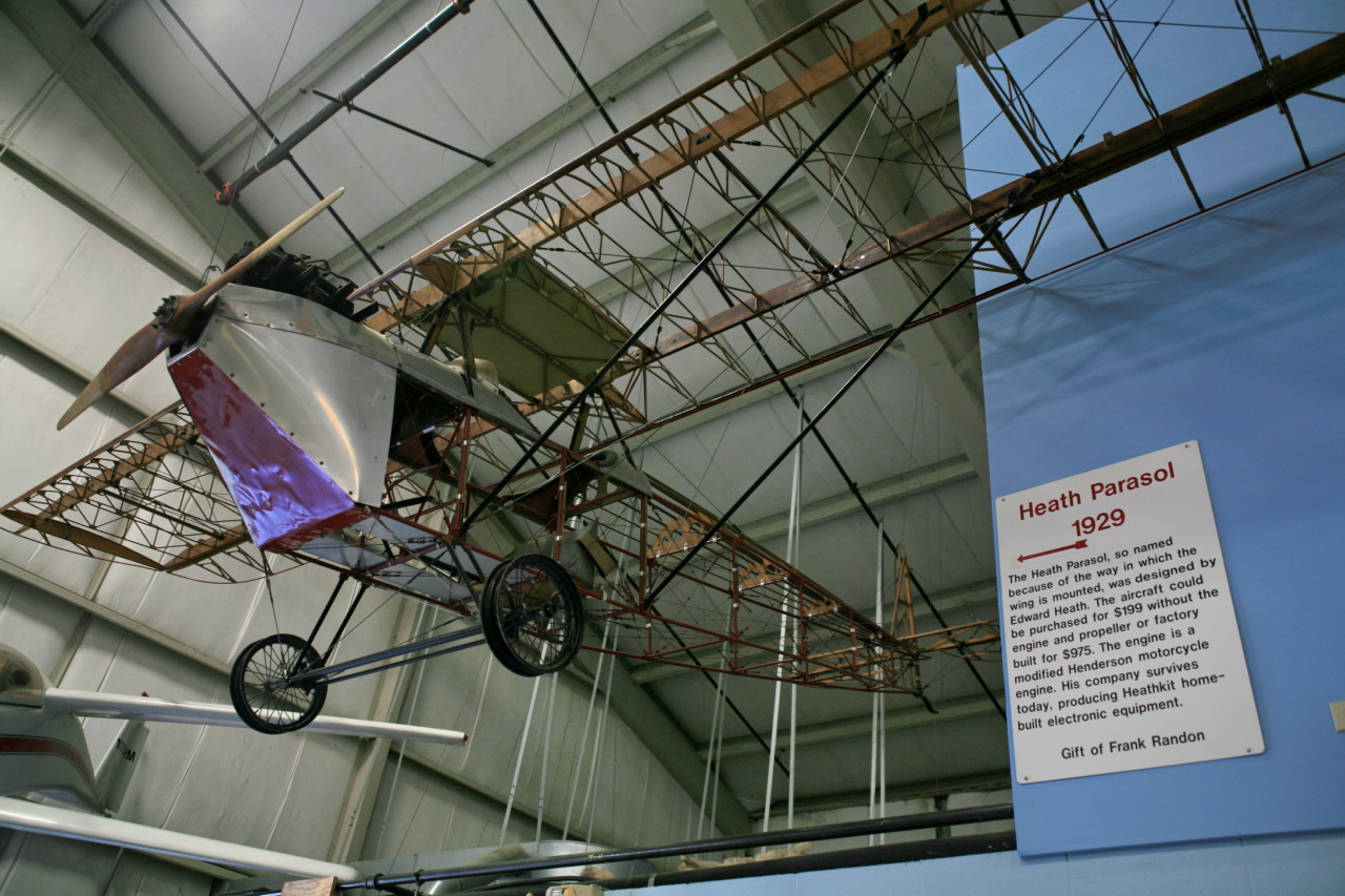 Heath LNB-4 Parasol -This aircraft was one of the more successful attempts to put man into the air economically. The airplane was designed to be built by anyone with average mechanical skills. All you needed were pliers, screwdriver, hacksaw, hammer, drill, chisel, center punch, file and lots of enthusiasm. The $199 kit was produced in eleven progressive groups. For example, the wing ribs group cost $12.47. Plans alone were available for $5.00. The last of several hundred, it was sold in 1936.